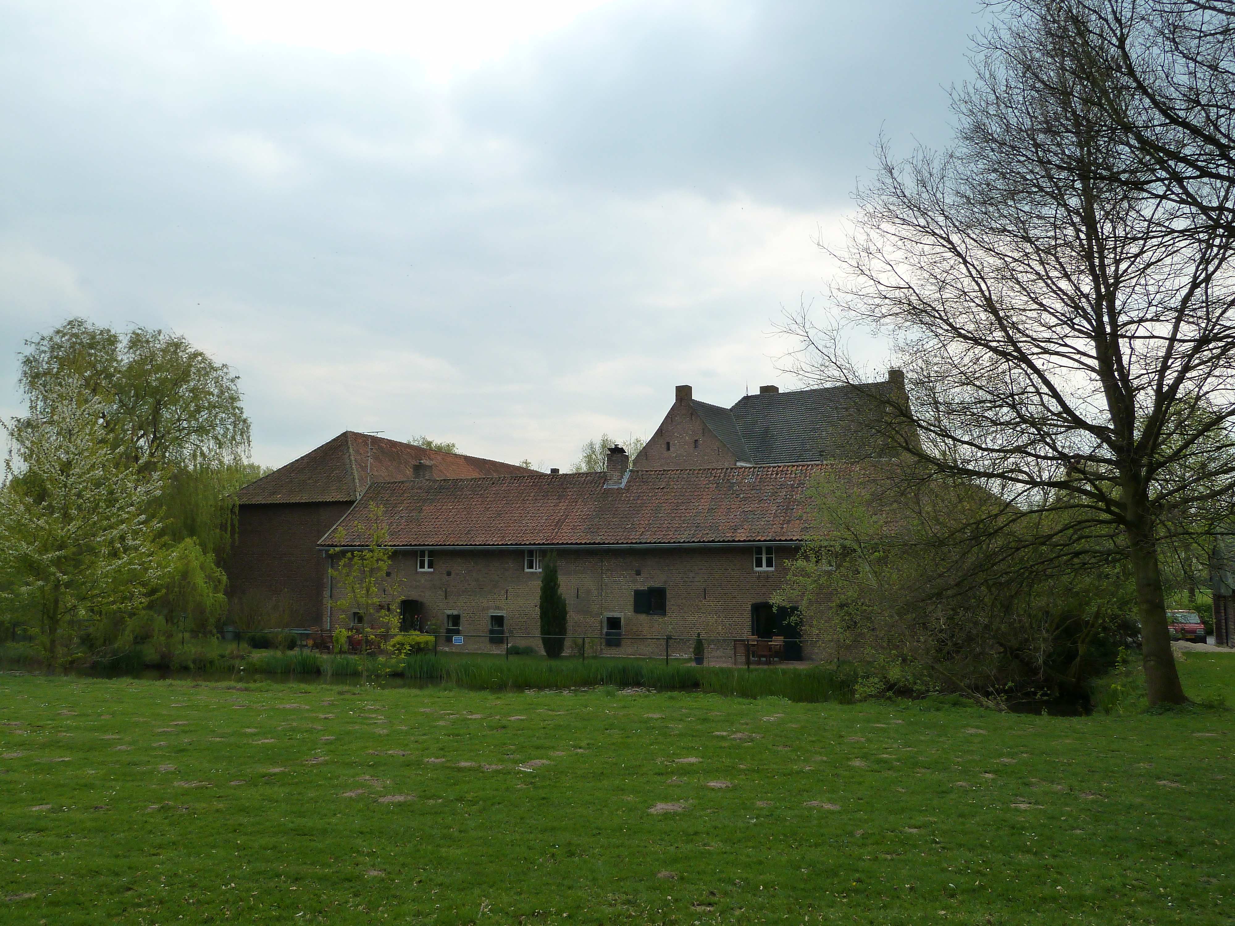 Brunssummerstraat 65, Schinveld, Limburg, the Netherlands